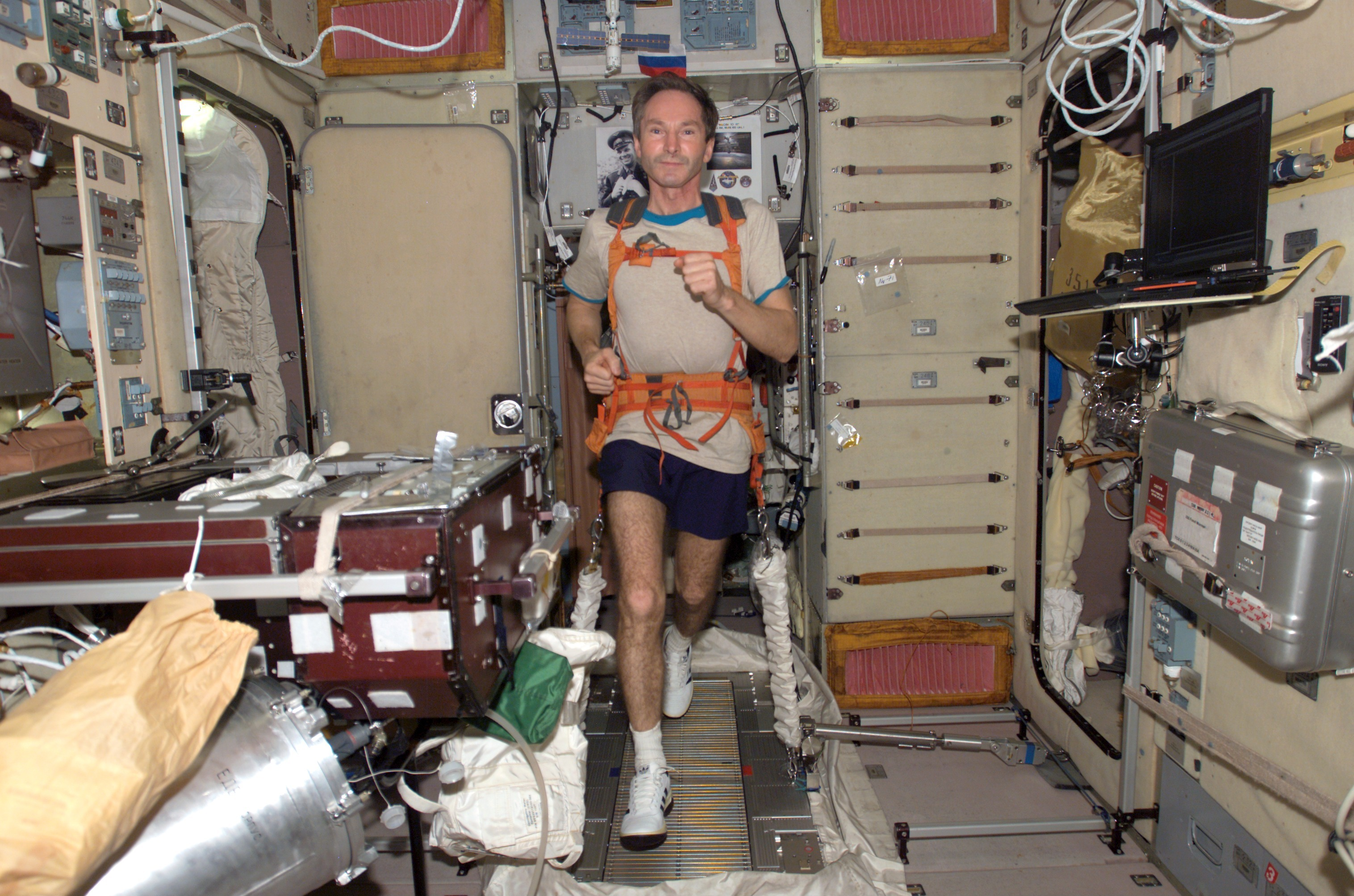 Cosmonaut Valery I. Tokarev, Expedition 12 flight engineer representing Russia's Federal Space Agency, equipped with a bungee harness, exercises on the Treadmill Vibration Isolation System (TVIS) in the Zvezda Service Module of the International Space Station.